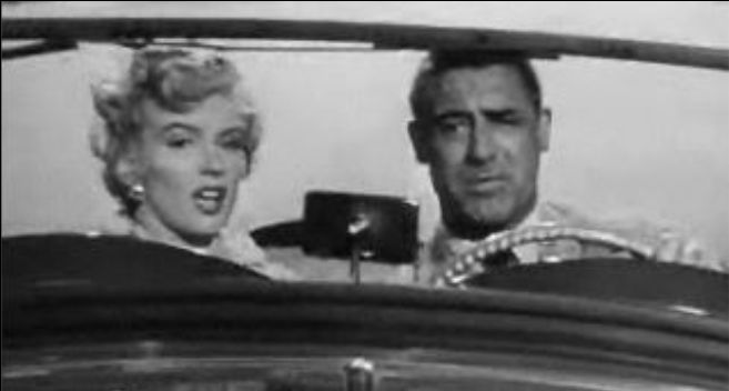 Cropped screenshot of Marilyn Monroe and Cary Grant from the trailer for the film Monkey Business